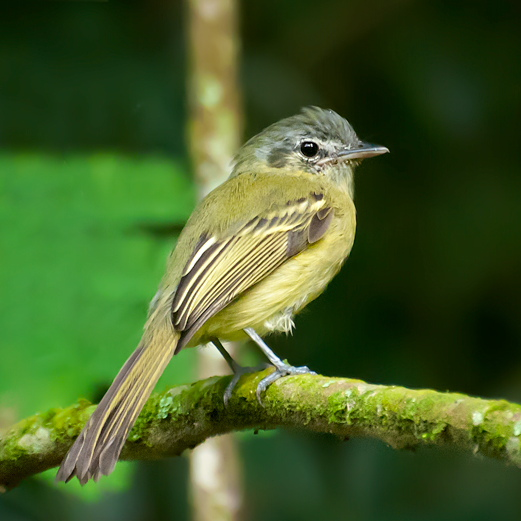 A Yellow-olive Flatbill in Parque Estadual da Cantareira, São Paulo, Brazil.